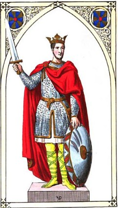 Baldwin II of Flanders